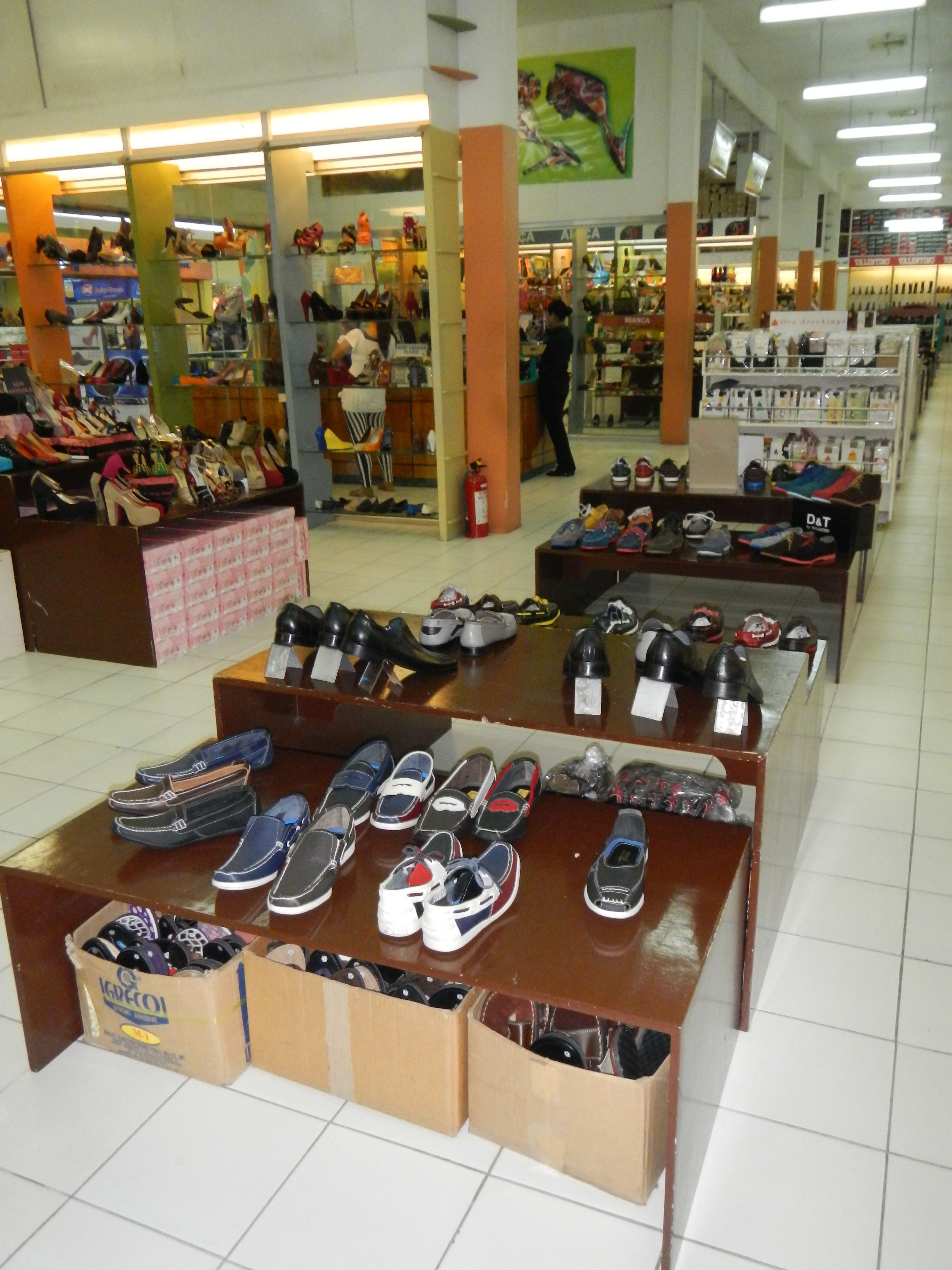 Upload Wizard photos of Marikina City [1] Hall Complex Compound -- Shoe Capital of the Philippines - , Riverbanks Center[2], including the Riverbank Mall, the Shoe Gallery, the Marikina City skyline, Marcos Highway,[3] Roman Garden at Marikina River[4] Park - Riverbanks Marikina a mall and office complex located off of Andres Bonifacio Avenue, Barangay Barangka, Marikina [5]City, near the Marcos Bridge over the Marikina River - world's largest pair of shoes are on display at Riverbank Center Shoe Gallery, 5.29 metres (17.4 ft) long and 2.37 metres 7 ft 9 in wide, equivalent to a French shoe size of 753, they were created over 77 days between August 5 and October 21, 2002 by Marikina City shoe industry businesspeople.